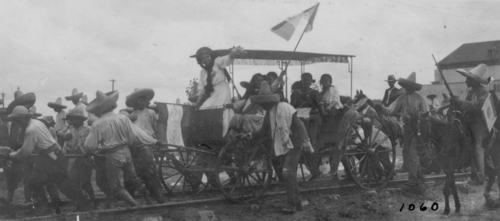 Celebration. Maderistas cheering the victory in the capture of Torreon.